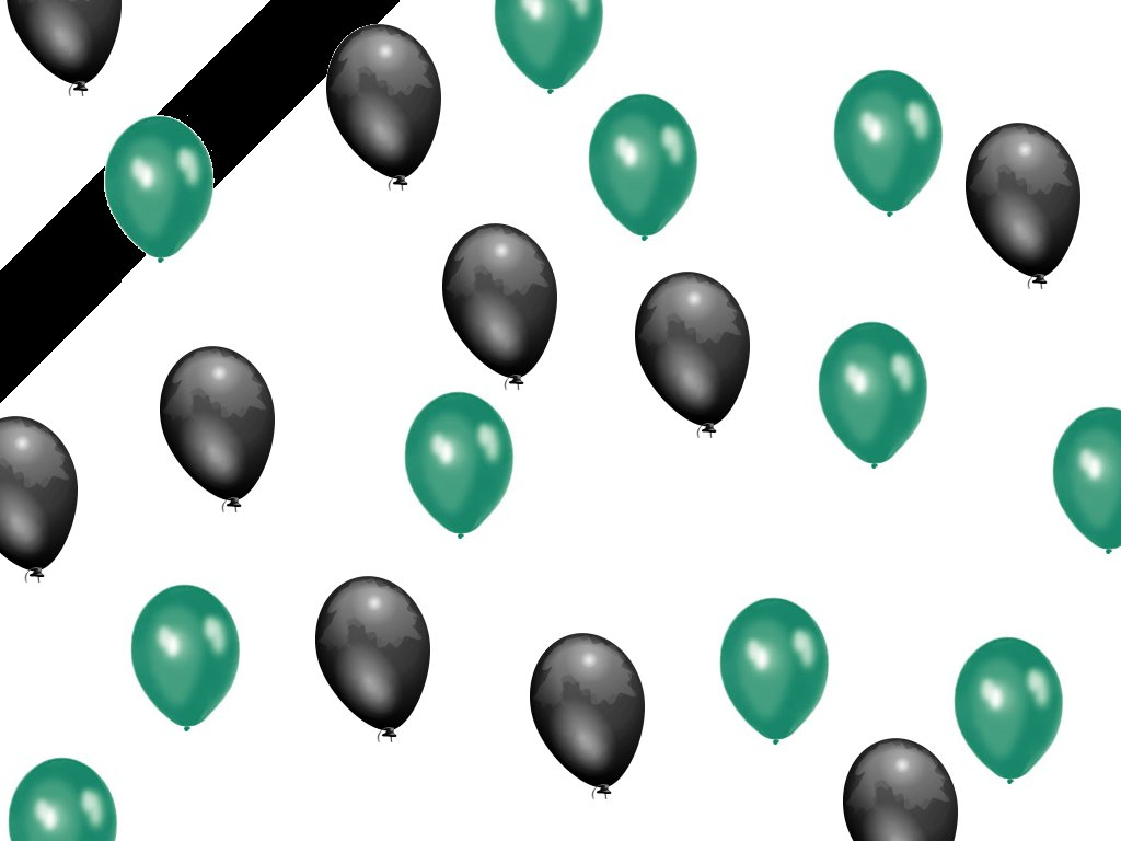 In memoriam of the killing of Neda Agha-Soltan and all the victims of the repression in Iran people released balloons on June 26, 2009